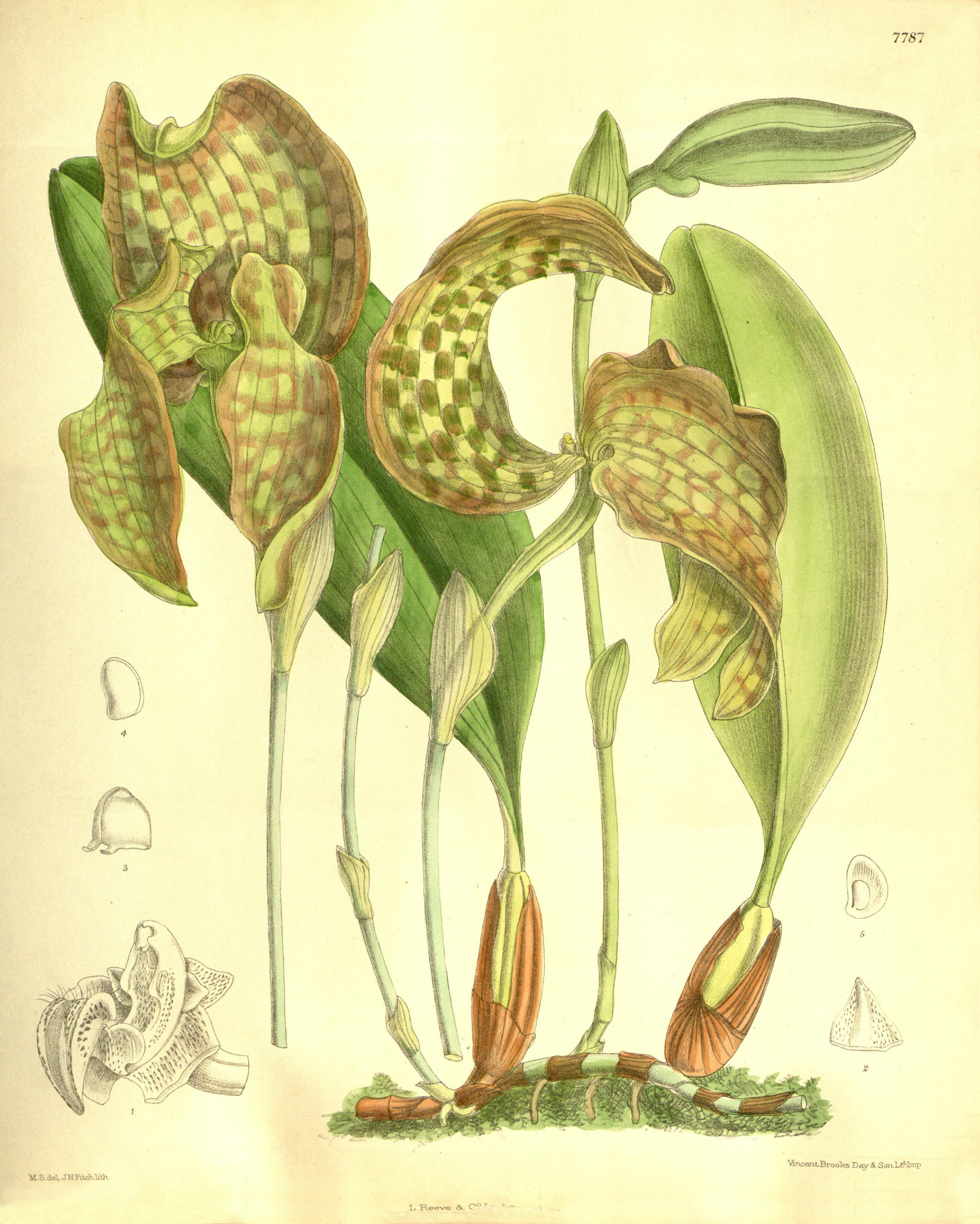 Illustration of Bulbophyllum grandiflorum